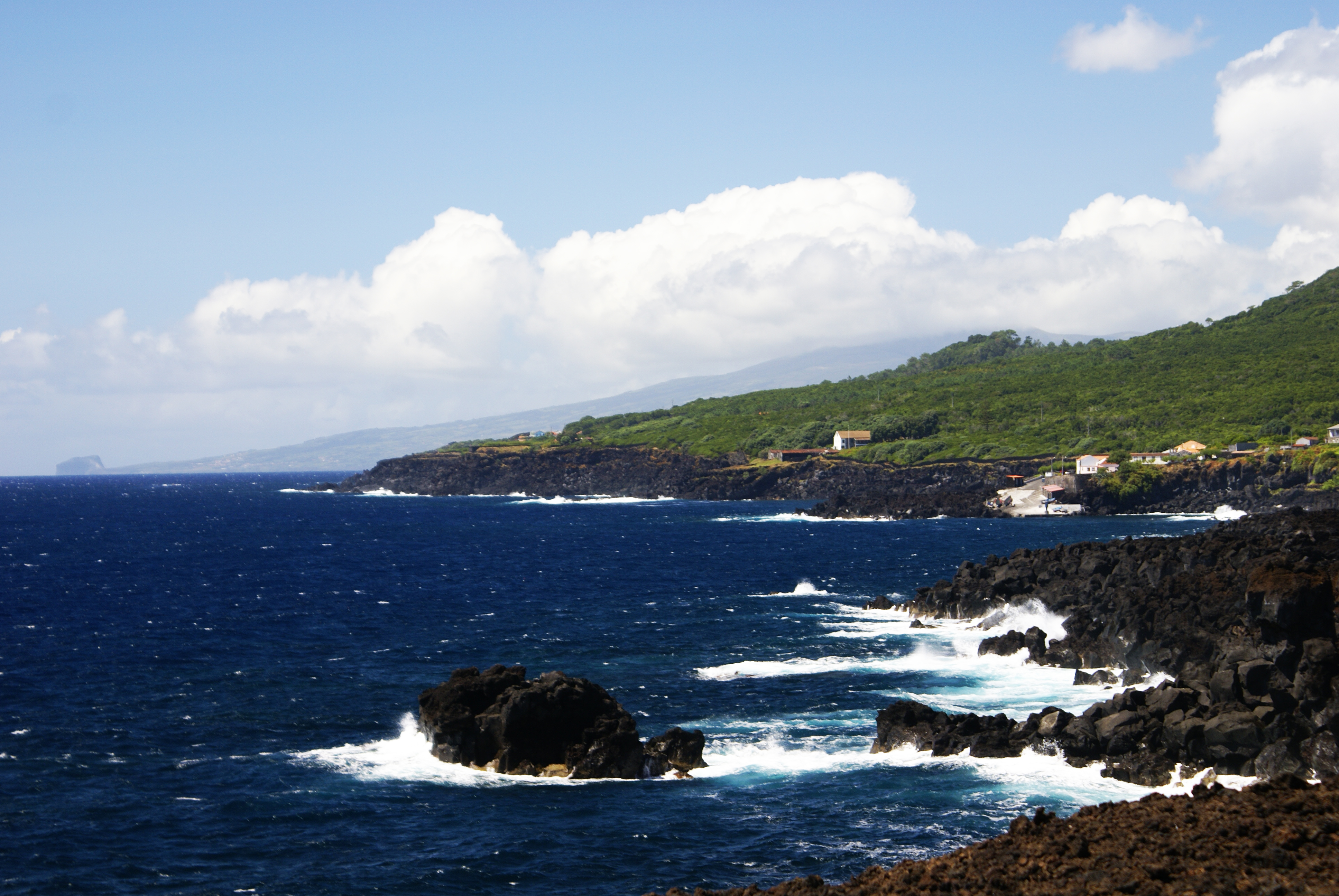 São Caetano, paisagem, São Mateus, Madalena, ilha do Pico, Açores, Portugal